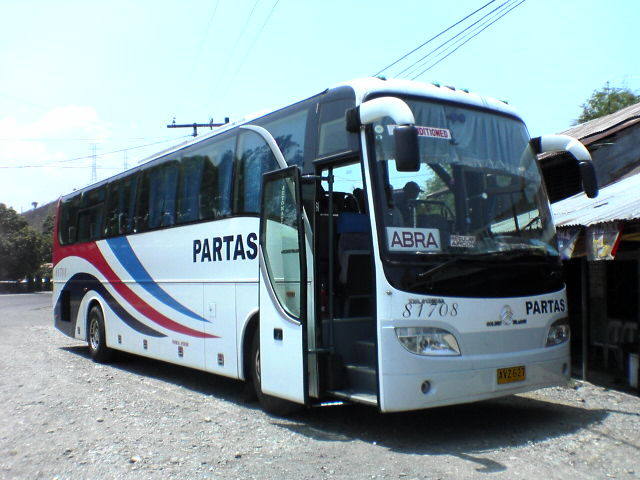 Provincial PhilippinesGolden Dragon bus operated by the Partas Transportation Co. Inc.